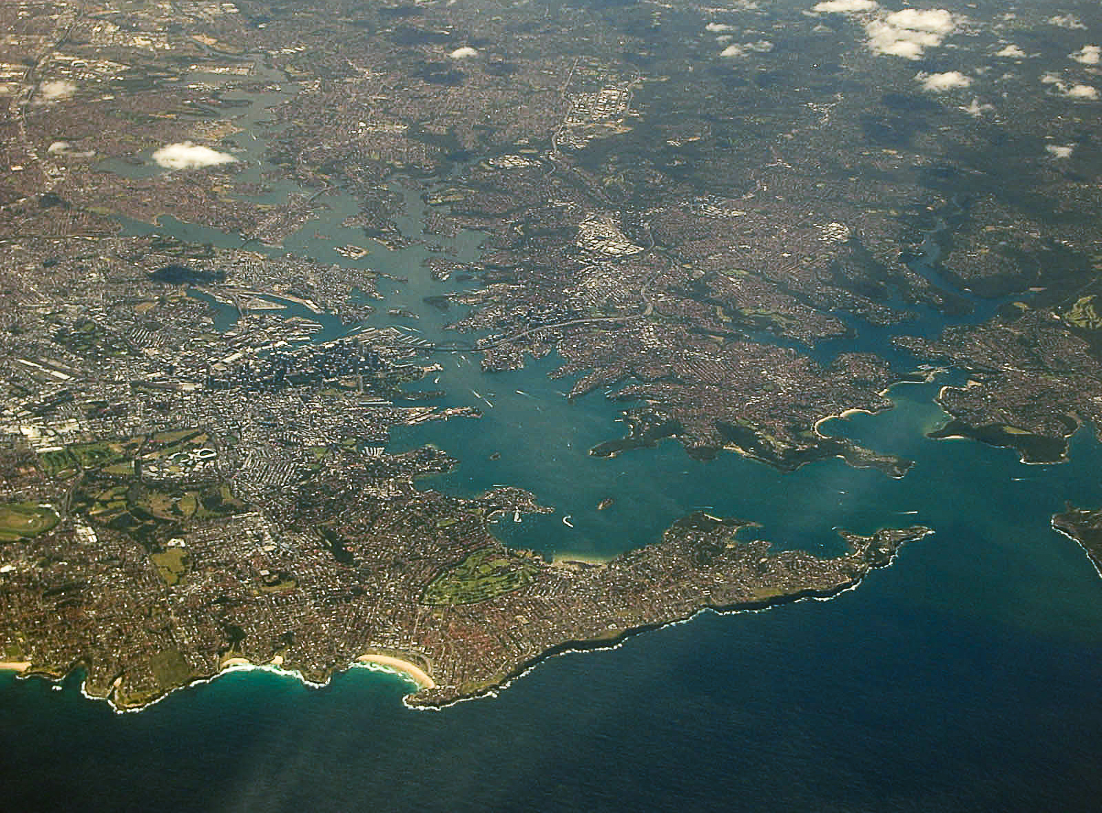 Aerial photograph taken on a flight from Newcastle to Melbourne. Taken by Tim Starling. Pentax Optio S30.